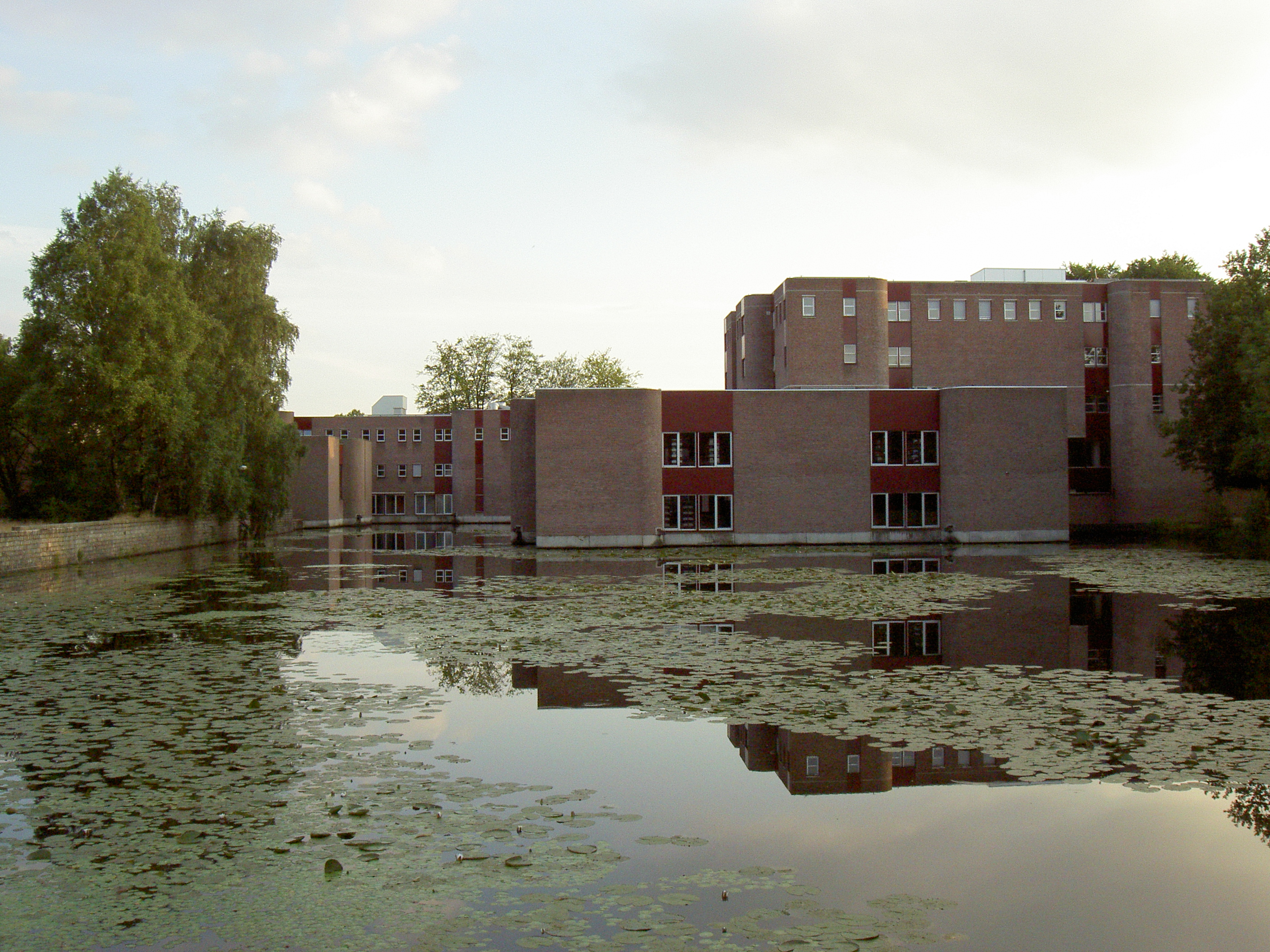 Backside of University Library with pond.